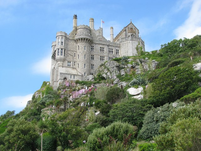 House and gardens of St Michael's Mount